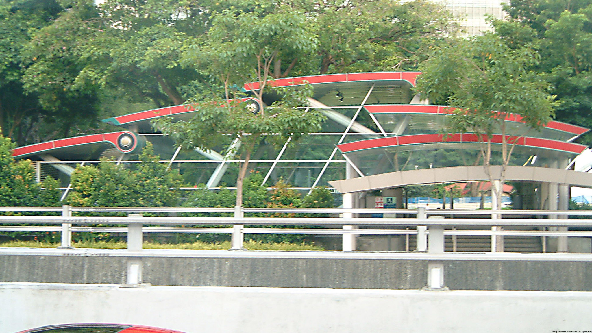 Station entrance to Clarke Quay MRT Station (NE5) on New Bridge Road. The station is next to the Singapore River. Pic by Calvin Teo, December 2005